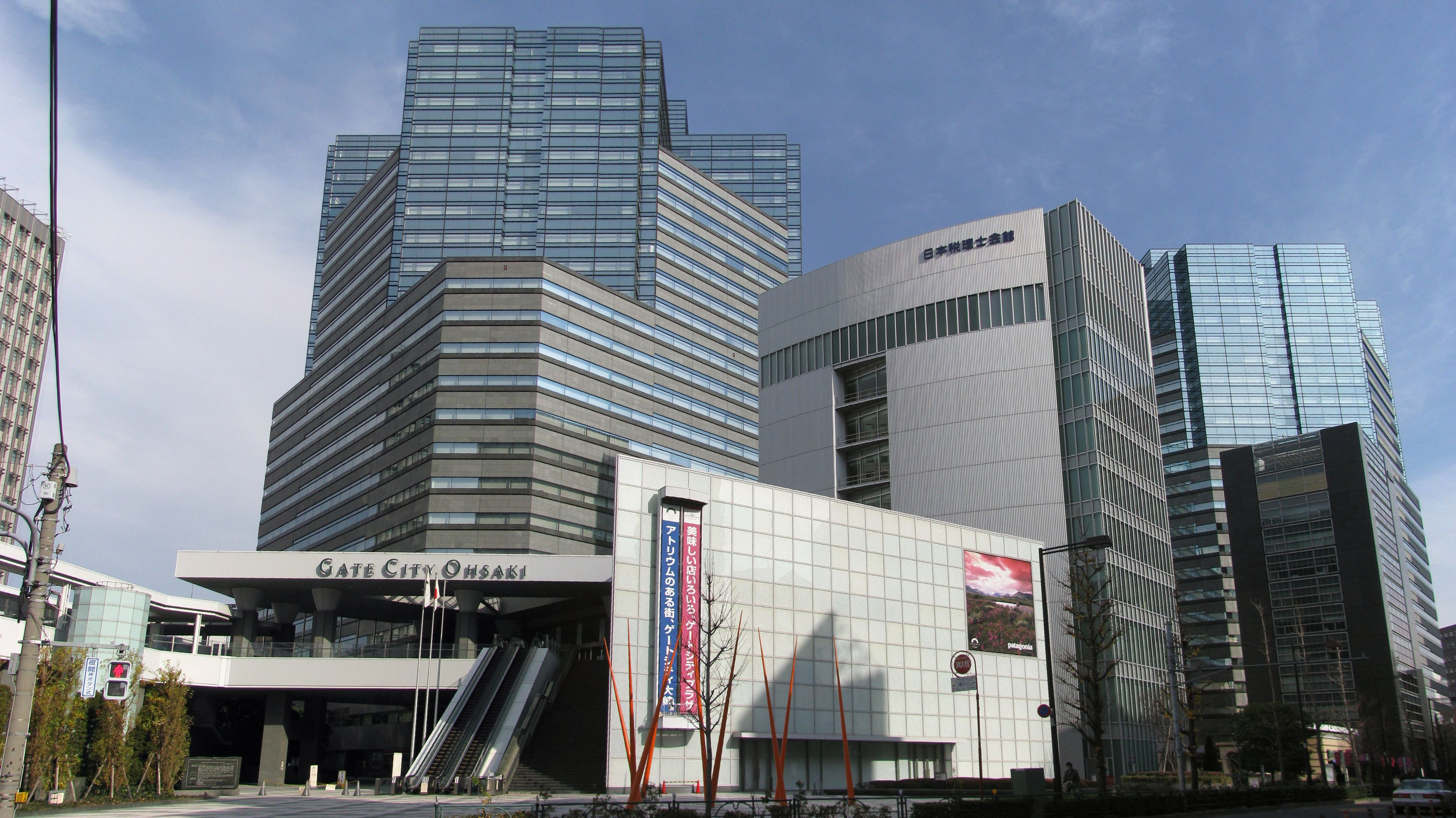 The Gate City Ohsaki. This place is Shinagawa, Tokyo, Japan.